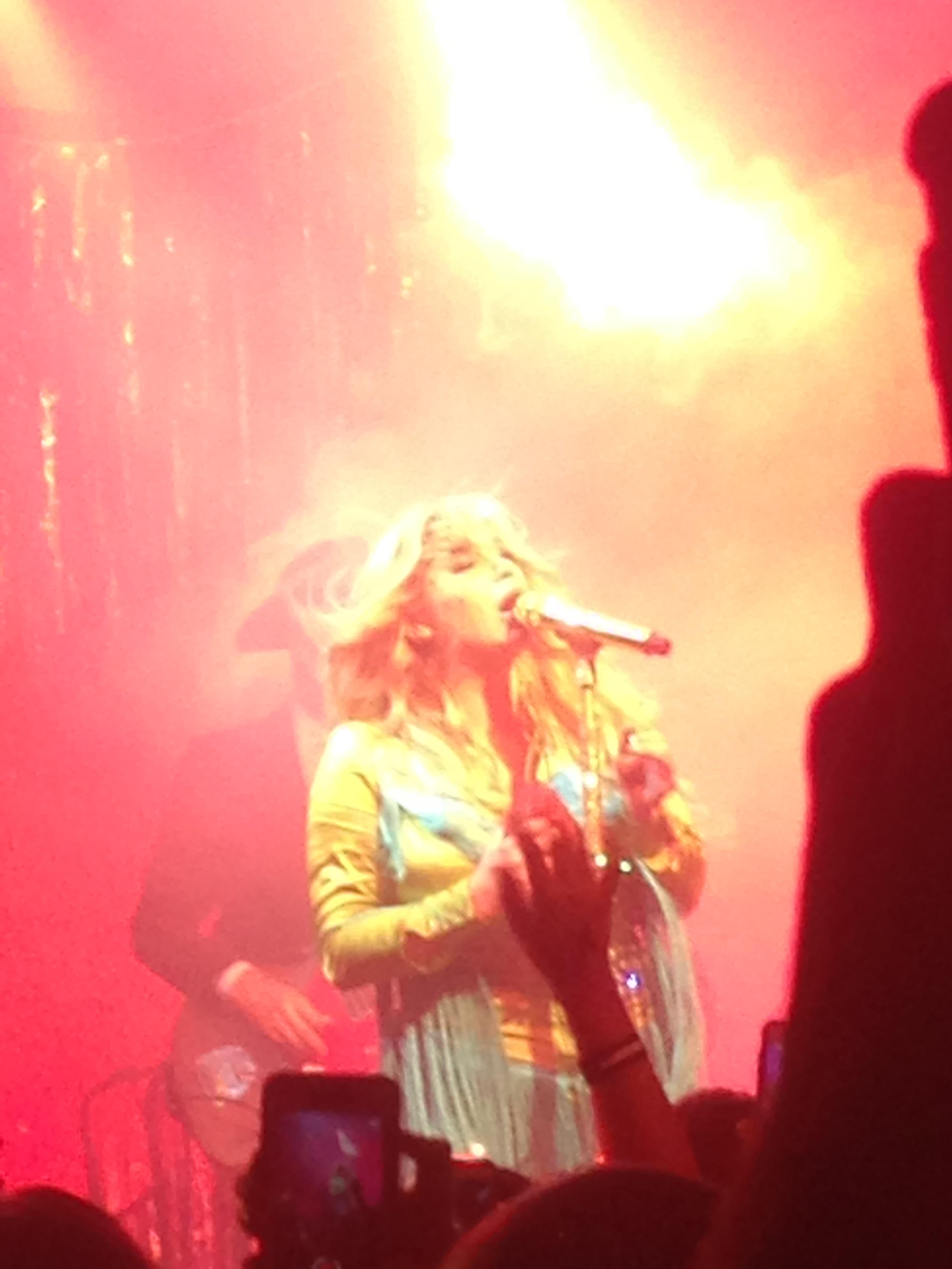 Kesha Sebert at Mr. Smalls Theater in Millvale, PA during her tour with "Kesha and the Creepies," 10 August, 2016